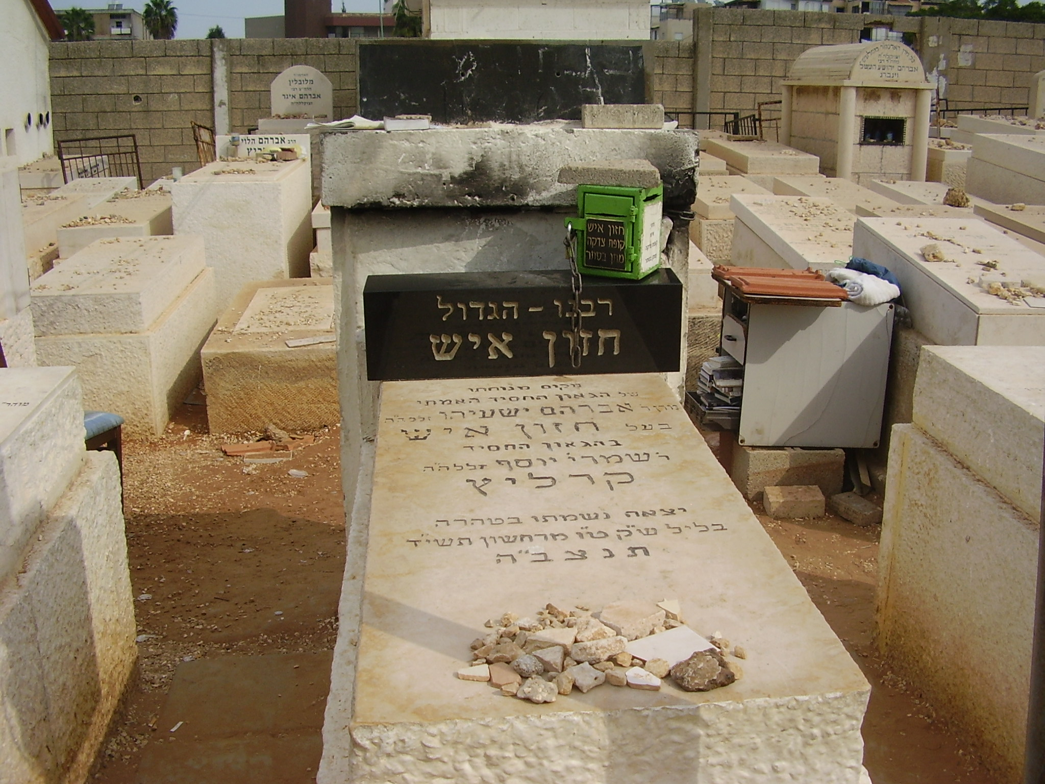 grave of rabbi avraham yeshaya karelitz (chazon ish) in bnei brak